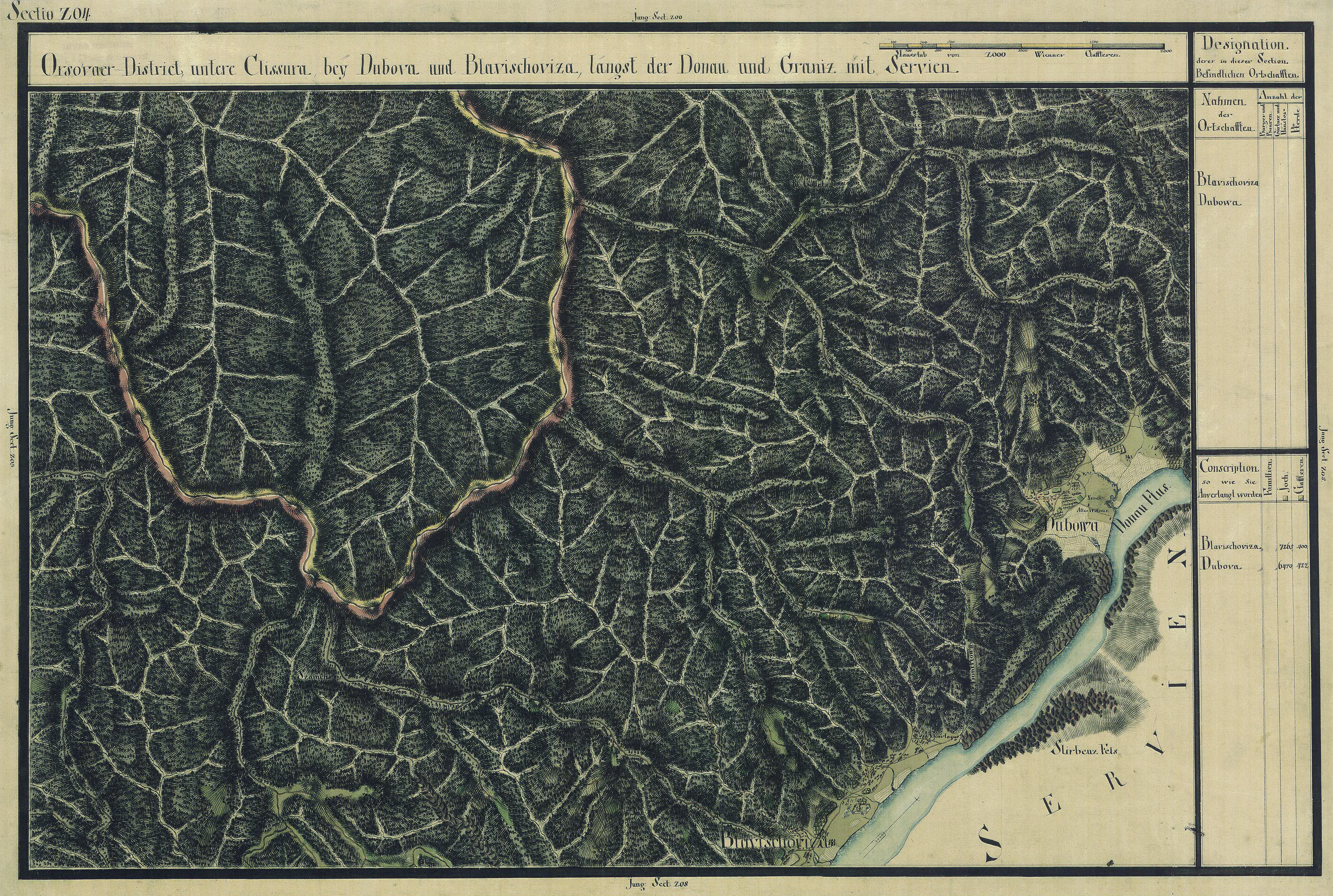 The Banat region in the cadastral maps: Josephinische Landesaufnahme, 1769-72. Josephinische Landaufnahme pg204